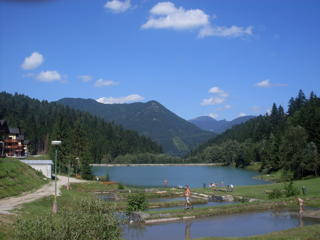 Hrabovo in Ružomberok (Slovakia)